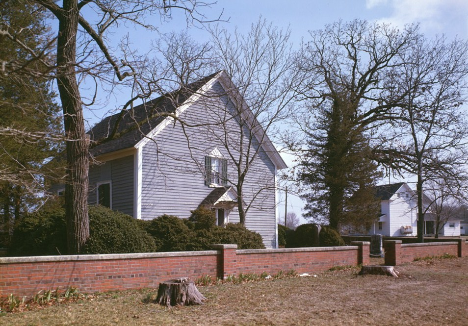 Blackwater Presbyterian Church, State Road 54, Clarksville vicinity (Sussex, Delaware) cropped This file comes from the Historic American Buildings Survey (HABS), Historic American Engineering Record (HAER) or Historic American Landscapes Survey (HALS). These are programs of the National Park Service established for the purpose of documenting historic places. Records consist of measured drawings, archival photographs, and written reports. When reusing please credit: Library of Congress, Prints & Photographs Division, DE-200-11 This tag does not indicate the copyright status of the attached work. A normal copyright tag is still required. See Commons:Licensing. This work is in the public domain in the United States because it is a work prepared by an officer or employee of the United States Government as part of that person’s official duties under the terms of Title 17, Chapter 1, Section 105 of the US Code. Note: This only applies to original works of the Federal Government and not to the work of any individual U.S. state, territory, commonwealth, county, municipality, or any other subdivision. This template also does not apply to postage stamp designs published by the United States Postal Service since 1978. (See § 313.6(C)(1) of Compendium of U.S. Copyright Office Practices). It also does not apply to certain US coins; see The US Mint Terms of Use. This file has been identified as being free of known restrictions under copyright law, including all related and neighboring rights. Object location38° 32′ 44″ N, 75° 09′ 43″ W